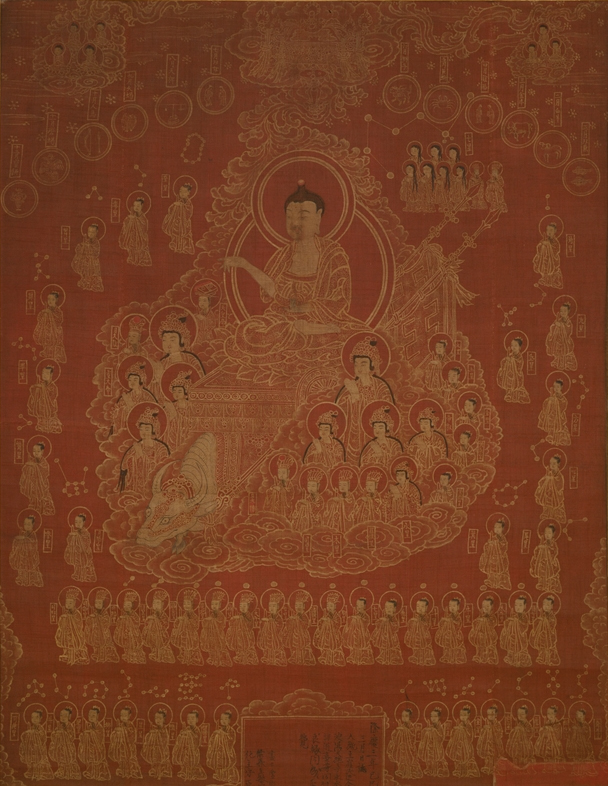 Shijoko Nyorai, Koryo Museum, Kyoto, Kyoto, Japan